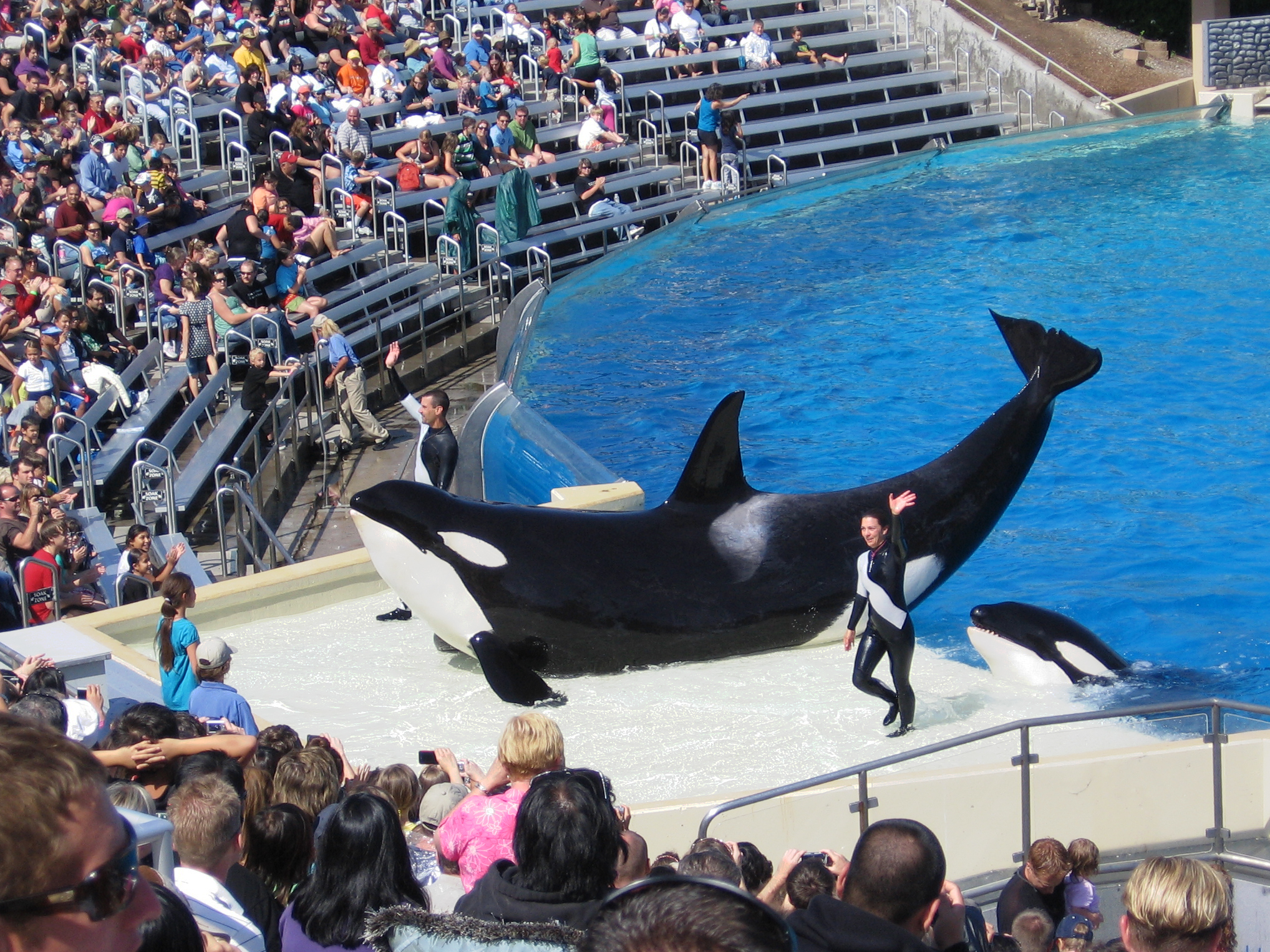 Orcas pause at SeaWorld show for crowd at San Diego, California, USA.